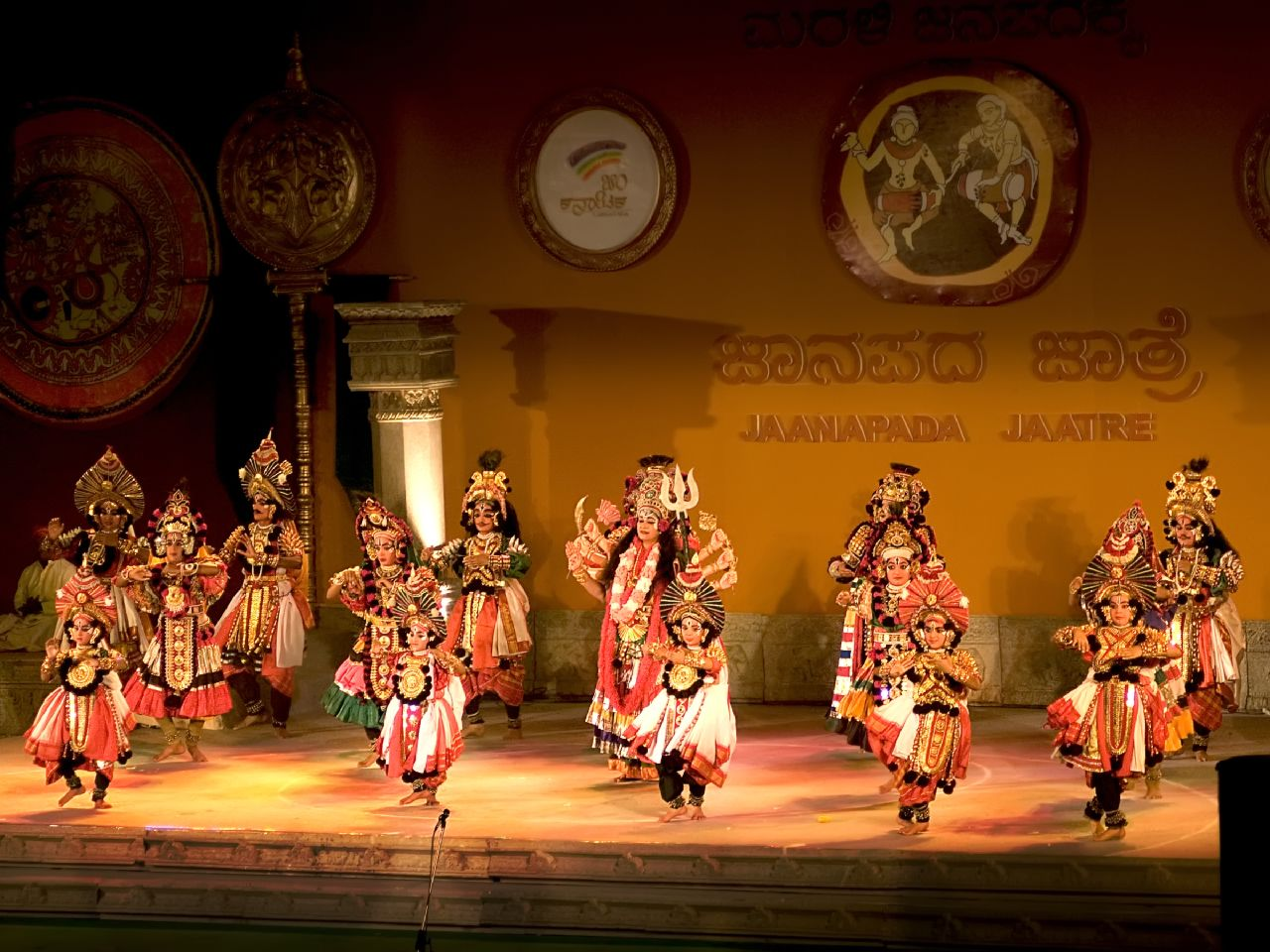 Flickr image of Jaanapada Jaatre or a gathering festival arranged by government of Karnataka in India. The picture is the original from site Jaanapada Jaatre licensed under Creative common license 2.0. Author: Meda